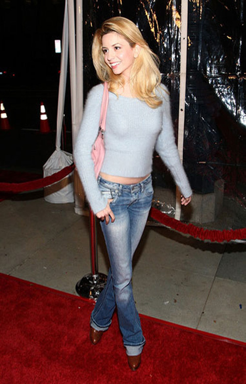 I took this photo in 2009 at the Fox Searchlight Movie Premiere of "The Wrestler." Masiela attended with a date by the name of Sean Lourdes.